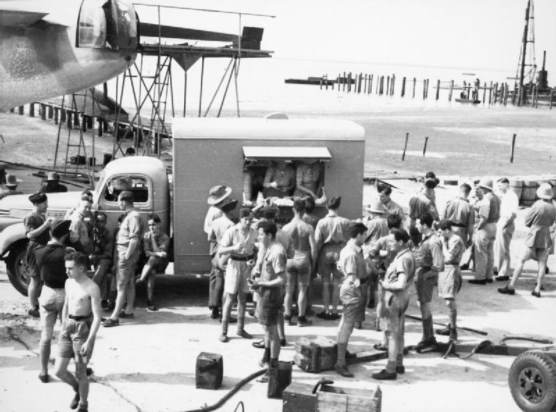 Royal Air Force- West Africa Command, 1941-1945. Groundcrew of No. 204 Squadron RAF gather round a mobile canteen, run by local volunteers of the British American Ambulance Corps, during a break for refreshments at the flying boat station in Bathurst/Half Die, The Gambia. Part of the tail section of one of the Squadron's Short Sunderlands can be seen at upper left, surrounded by servicing scaffolding.